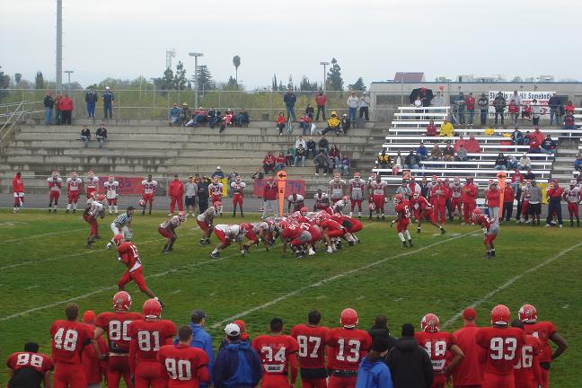 Photo taken at a Fresno State Bulldog spring scrimmage in the city of Visalia, CA by ZK686.